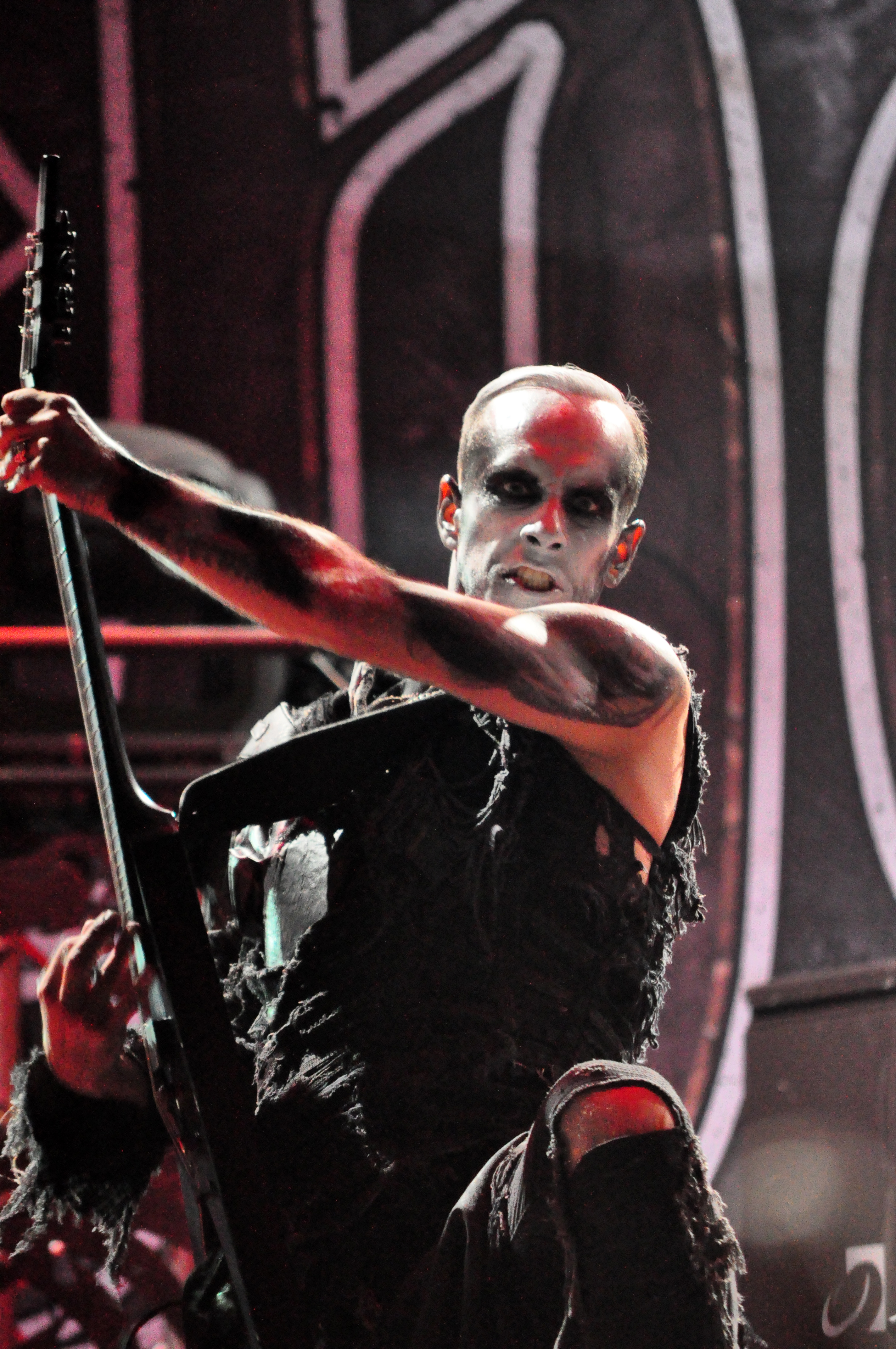 Behemoth at Party.San Open Air 2012